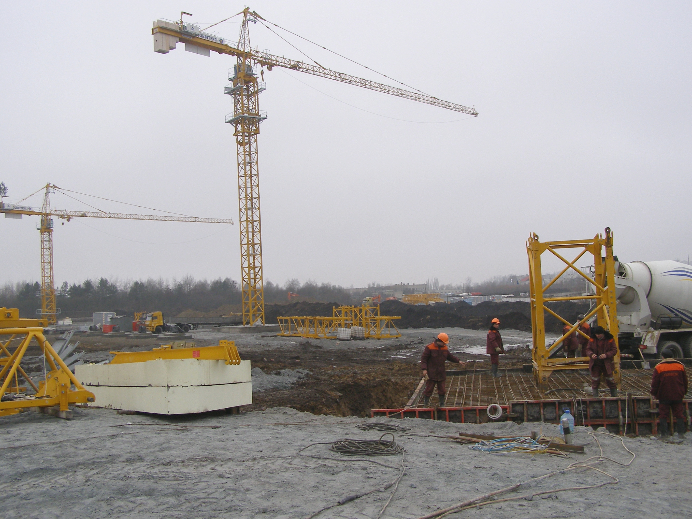 Pouring a concrete for the foundation of new stadium in Lviv